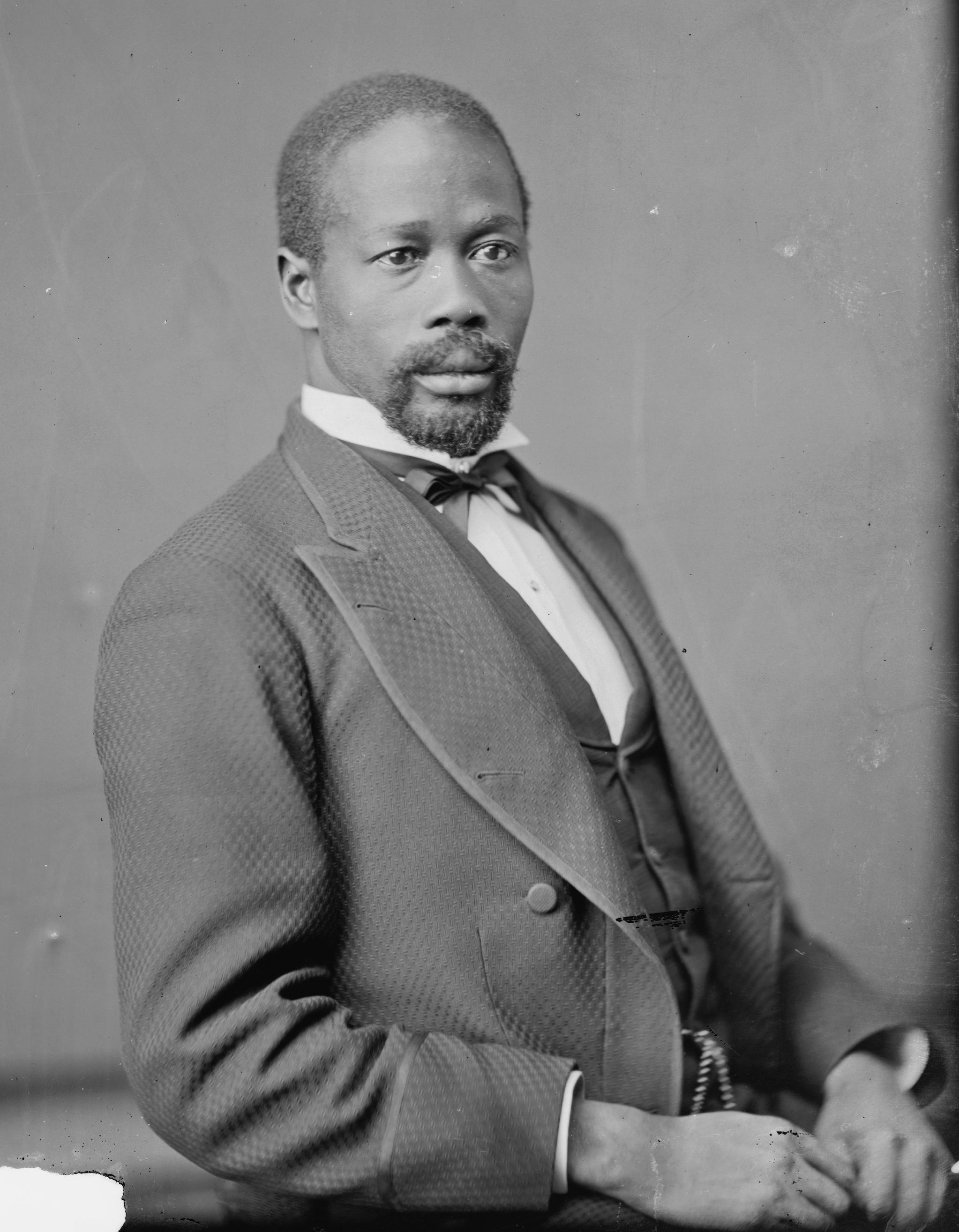 Jeremiah Haralson. Library of Congress description: "Hon. Jeremiah Haralson of Ala. Killed by wild beasts near Denver, Col. 1916"